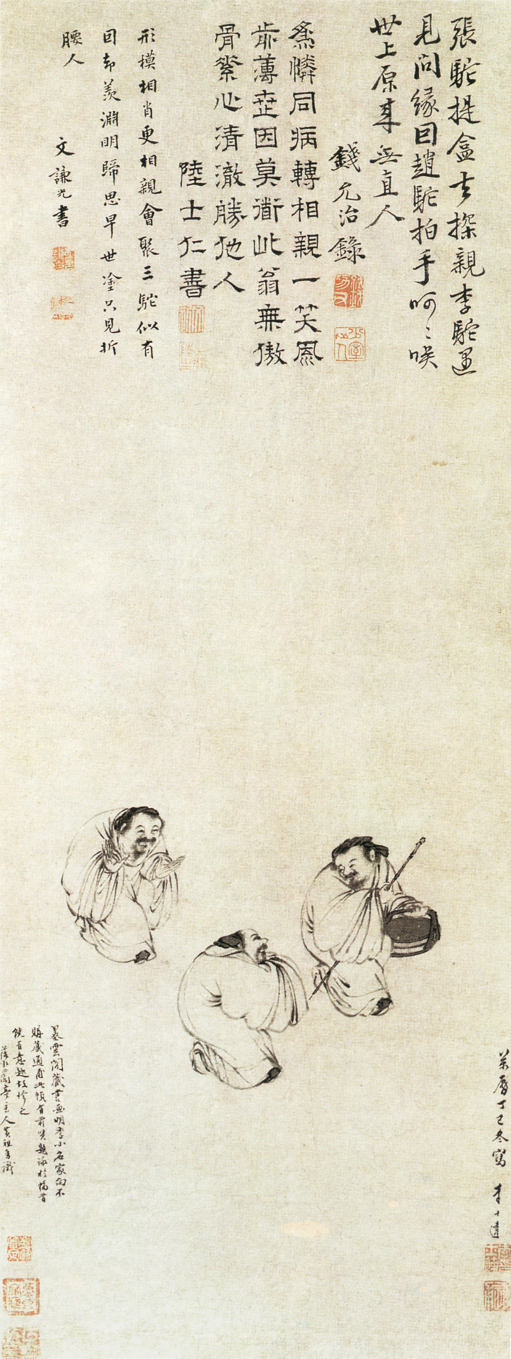 Three Hunchbacks, Li Shida, Ming Dynasty, China, Palace Museum, Beijing.